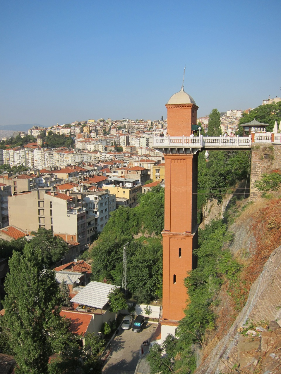 View of Asansor with downtown Izmir in the background.